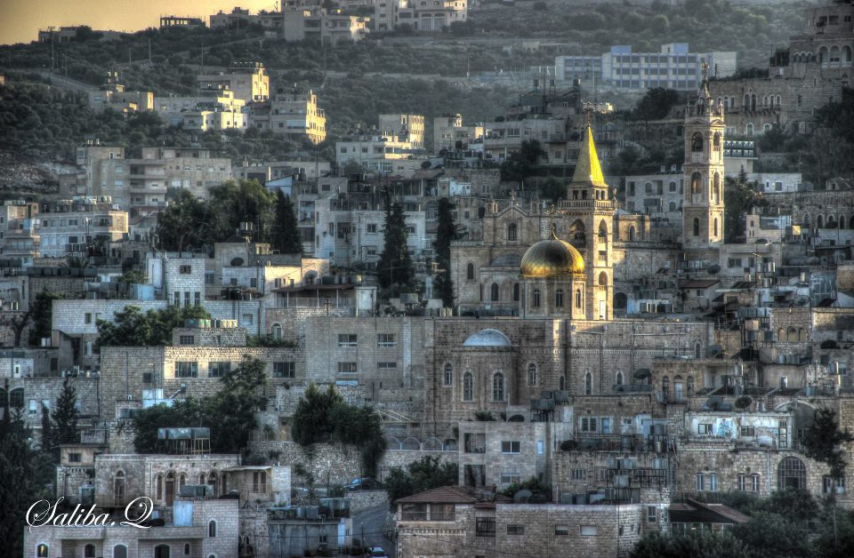 A landscape image of Saint Nicholas Church in Beit Jala.